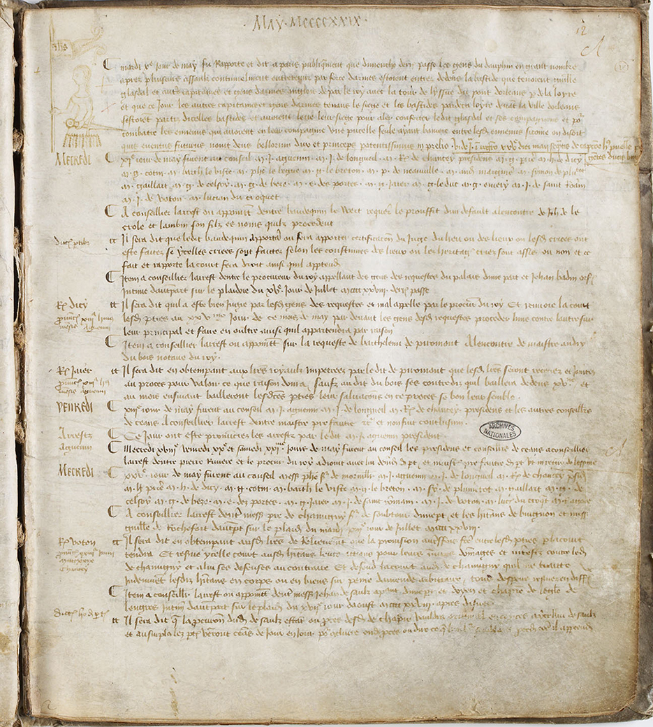 Jeanne d'Arc by Clément de Fauquembergue, the only known portrayal of Jeanne d'Arc by her Lifetime (May 10th, 1429). Centre Historique des Archives Nationales AE II 447 (X1a 1481 fol. 12r.), Musée de l'Historique de France (Hôtel de Soubise).